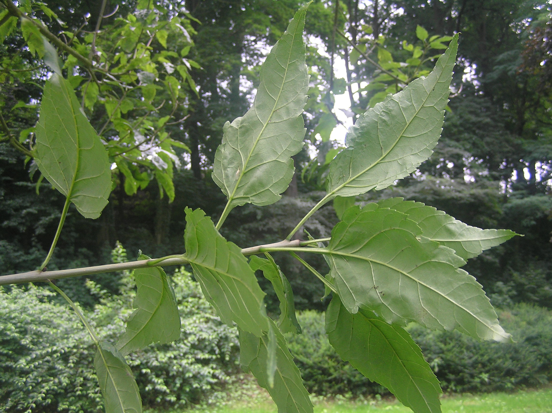 Fraxinus excelsior 'Diversifolia', park Peliny in Choceň, Czech Republic